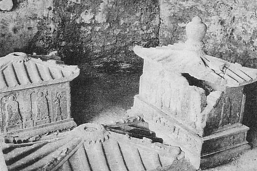 Stone sarcophagus of King Eiso